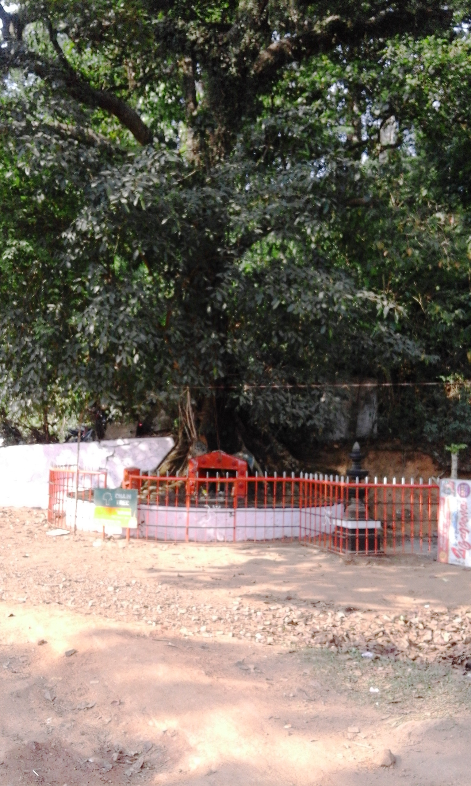 Wayanad District, Kerala province, India.